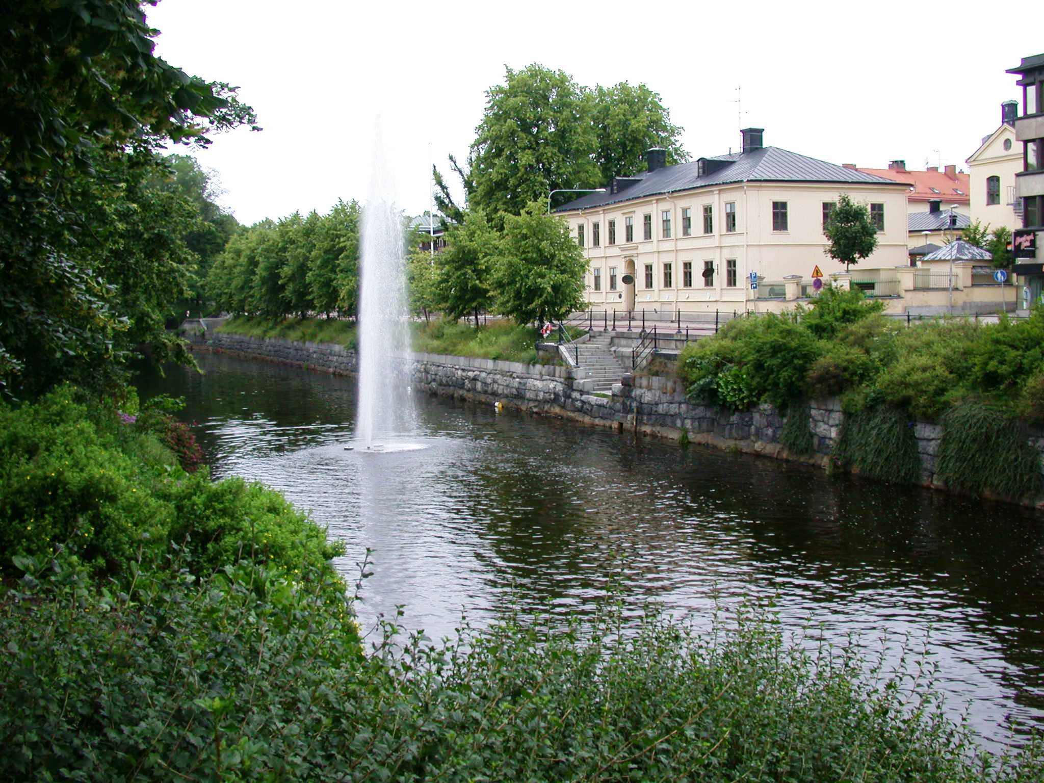 The river Gavleån, The river Gavleån, Gävle Was in category Gävle on wikivoyage